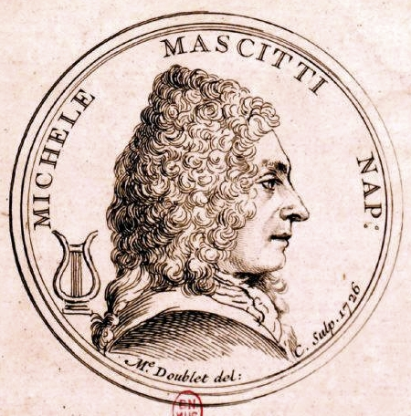 Italian violinist and composer Michele Mascitti (1664-1760). Drawing and engraving by Marie-Anne Doublet (1677-1771).